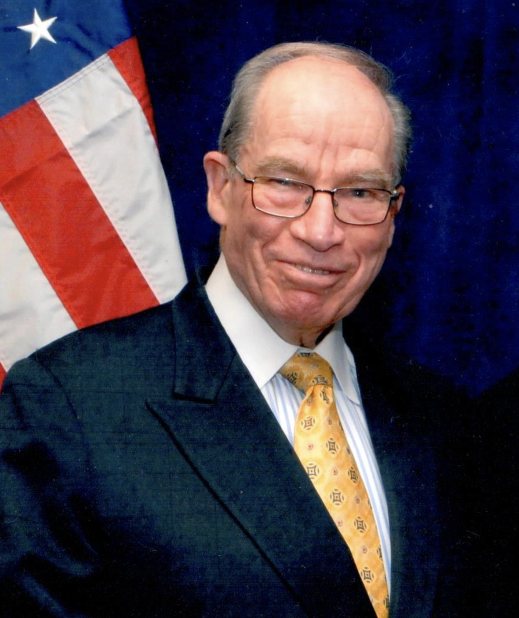 Former U.S. Representative Herbert C. Klein with President Barack Obama in 2015.